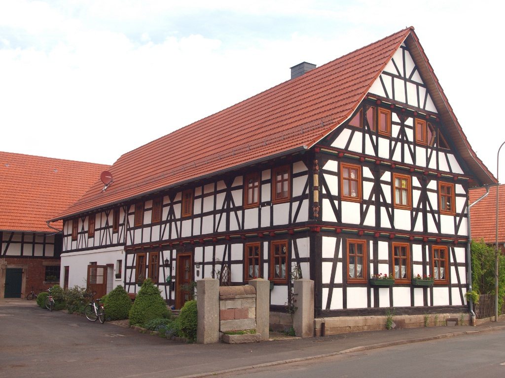 aisled house combining living quarters and stables in Schenklengsfeld-Hilmes. It's a part of a three-sided farm